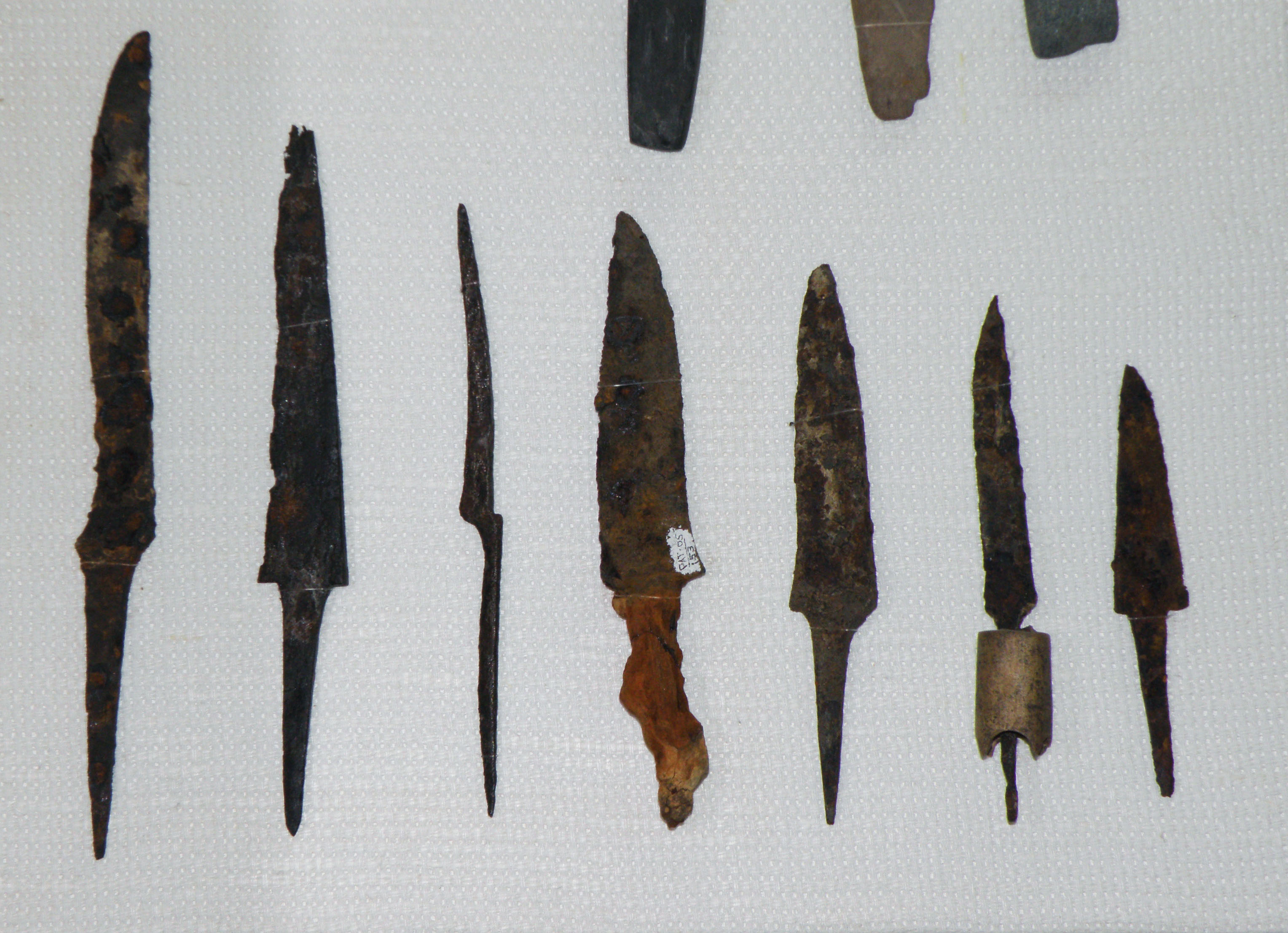 Iron Age knives from Belarus in the Museum of the Historical Faculty, Belarusian State University